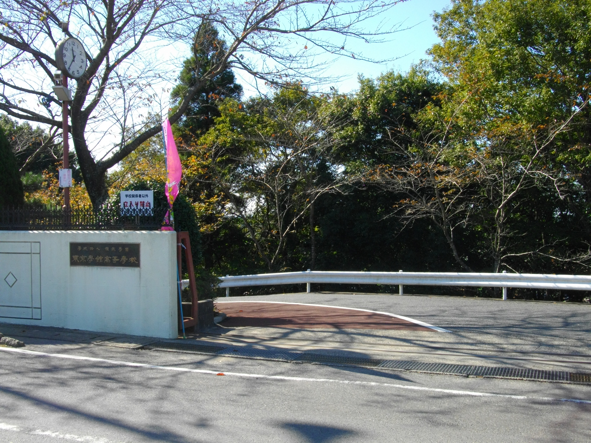 Entrance to Tokyo Gakkan High School